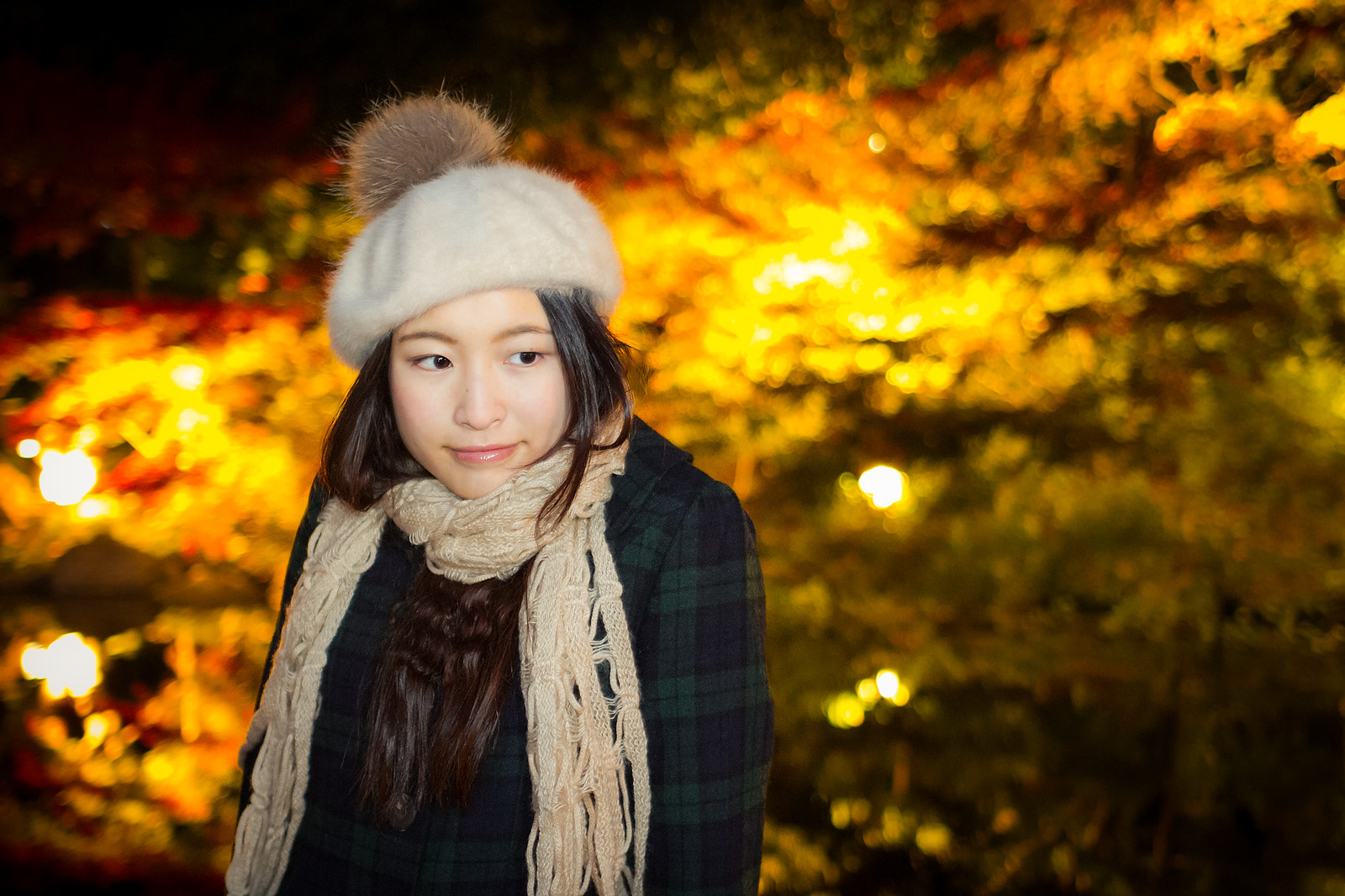 Japanese girl in the autumn illumination of Tokugawa Garden, Nagoya, Japan. Taken in 2012. Model: Mayu. Image is originally published on Meibi Photography